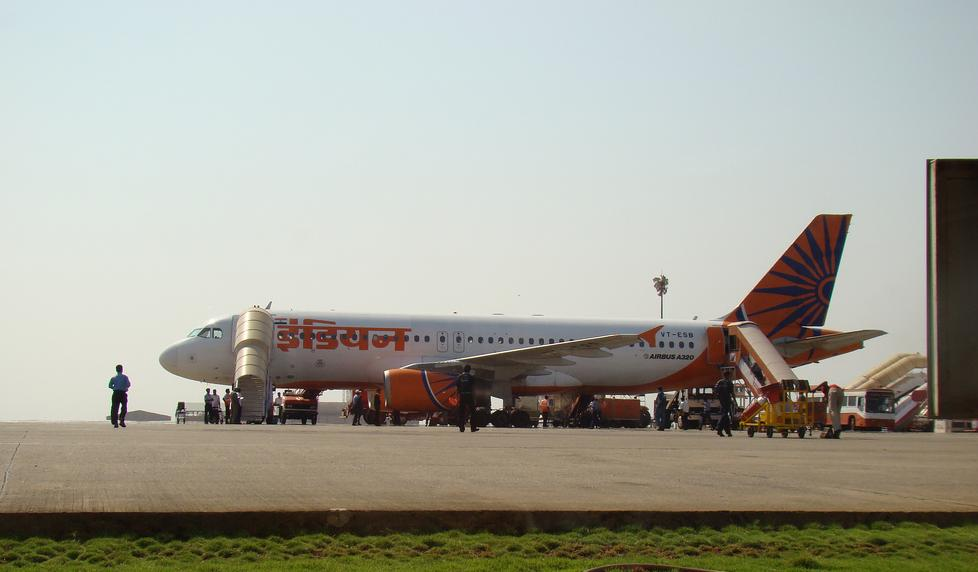 Airbus at Dabolim Airport, Goa